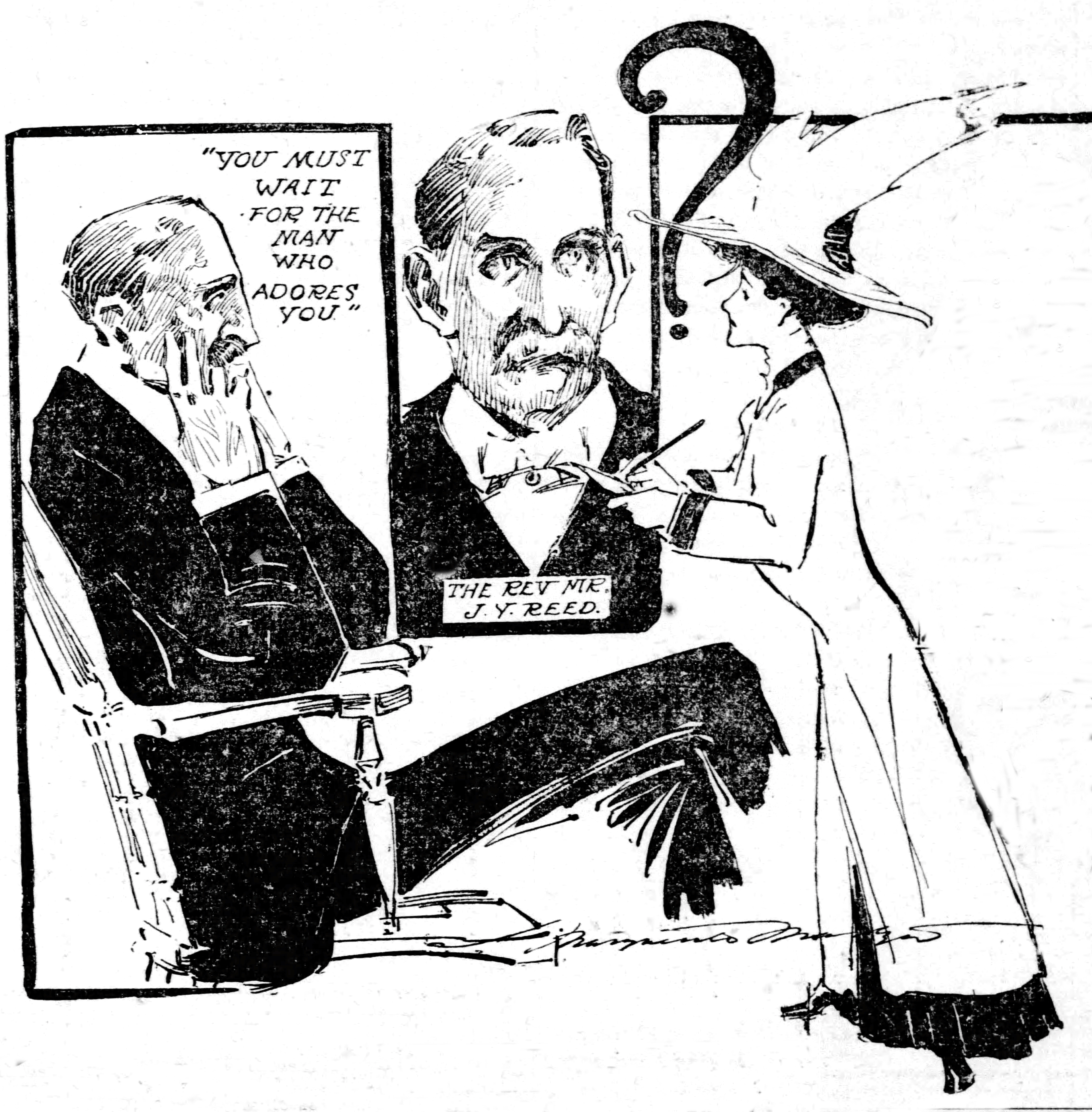 In this self-sketch by journalist Marguerite Martyn, she shows herself interviewing Methodist Minister J.Y. Reed.